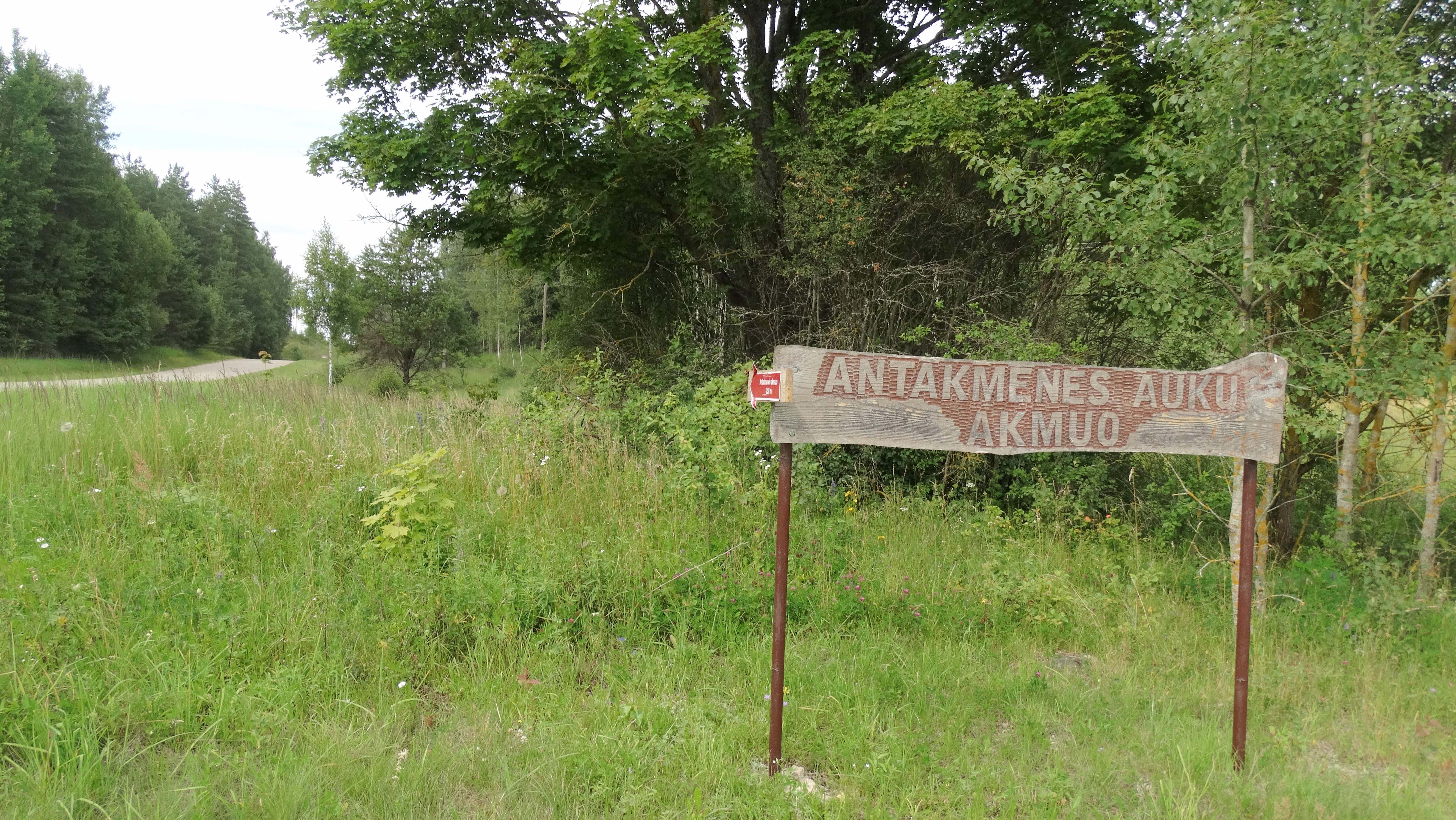 Antakmenė, Ignalina district, Lithuania